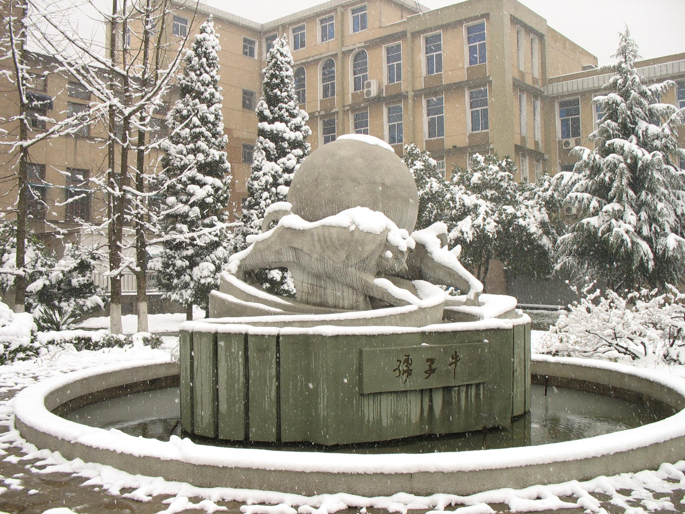 雕像：扭转乾坤 MIN, Baili 07:27, 4 February 2007 (UTC)